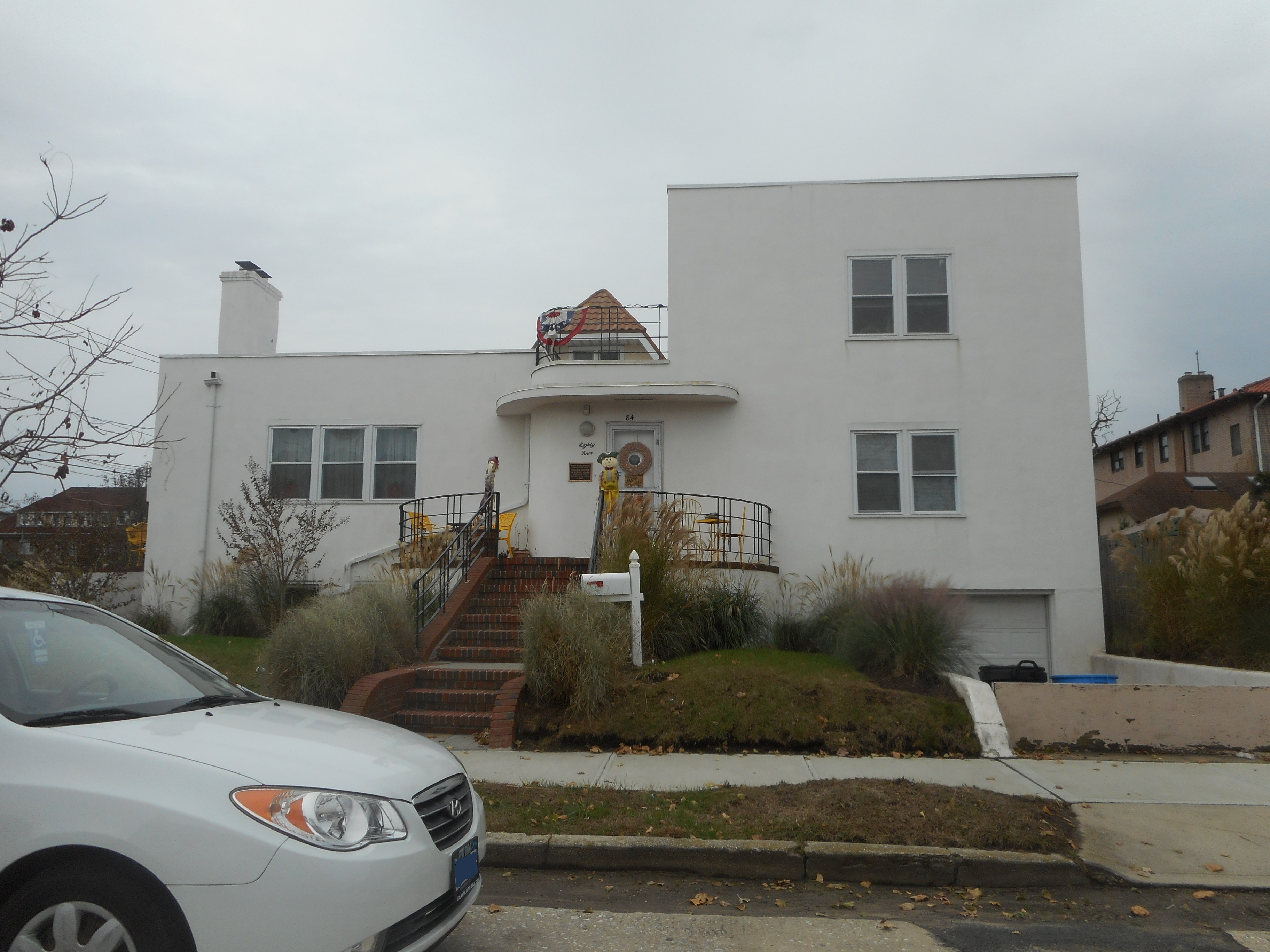 The (William) Barkin House, a late 1940s International Style beach house in Long Beach, New York currently listed on the National Register of Historic Places.